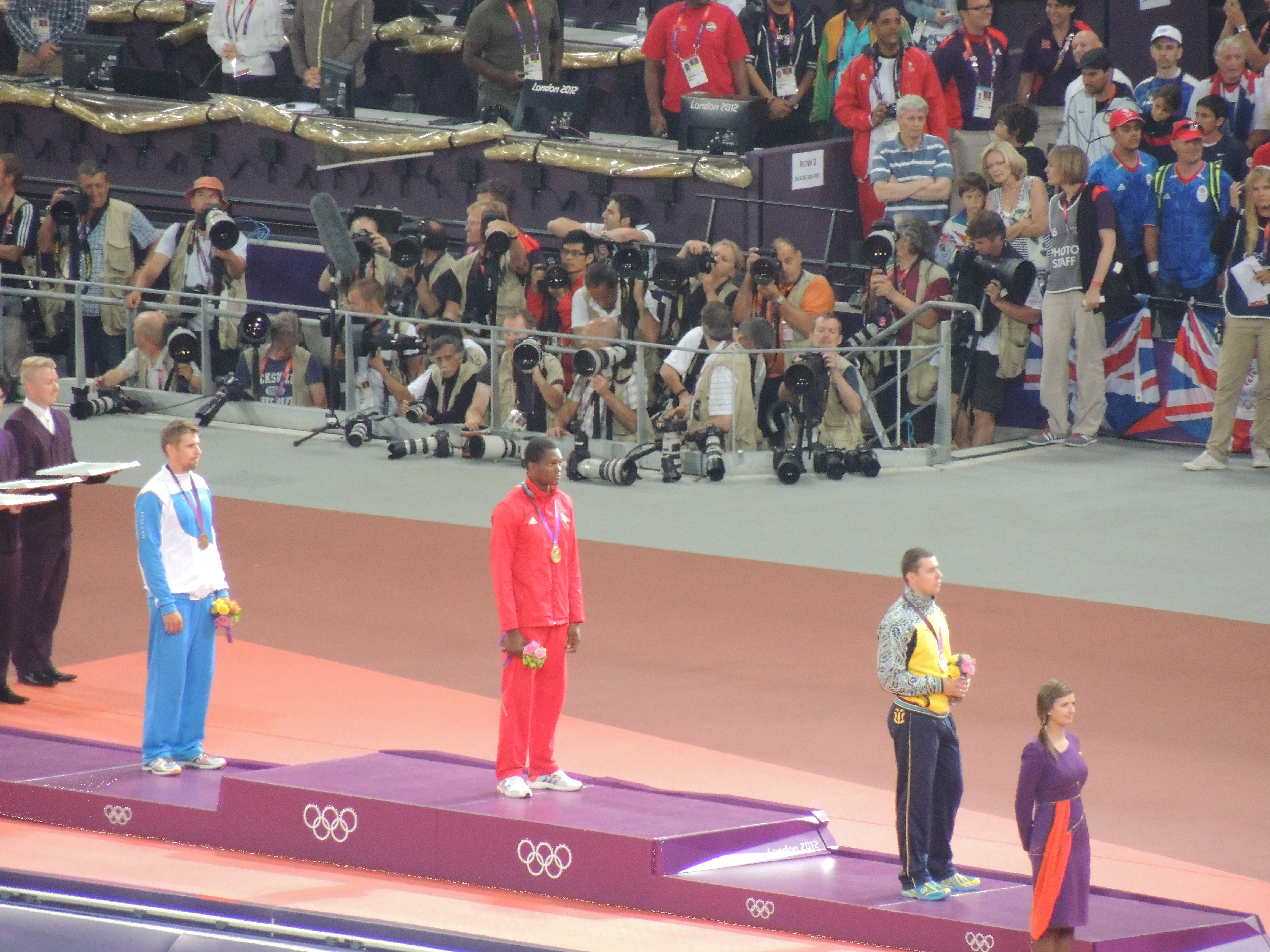 2012 Summer Olympic Games - javelin throw men victory ceremony, Antti Ruuskanen, Keshorn Walcott, Oleksandr Pyatnytsya